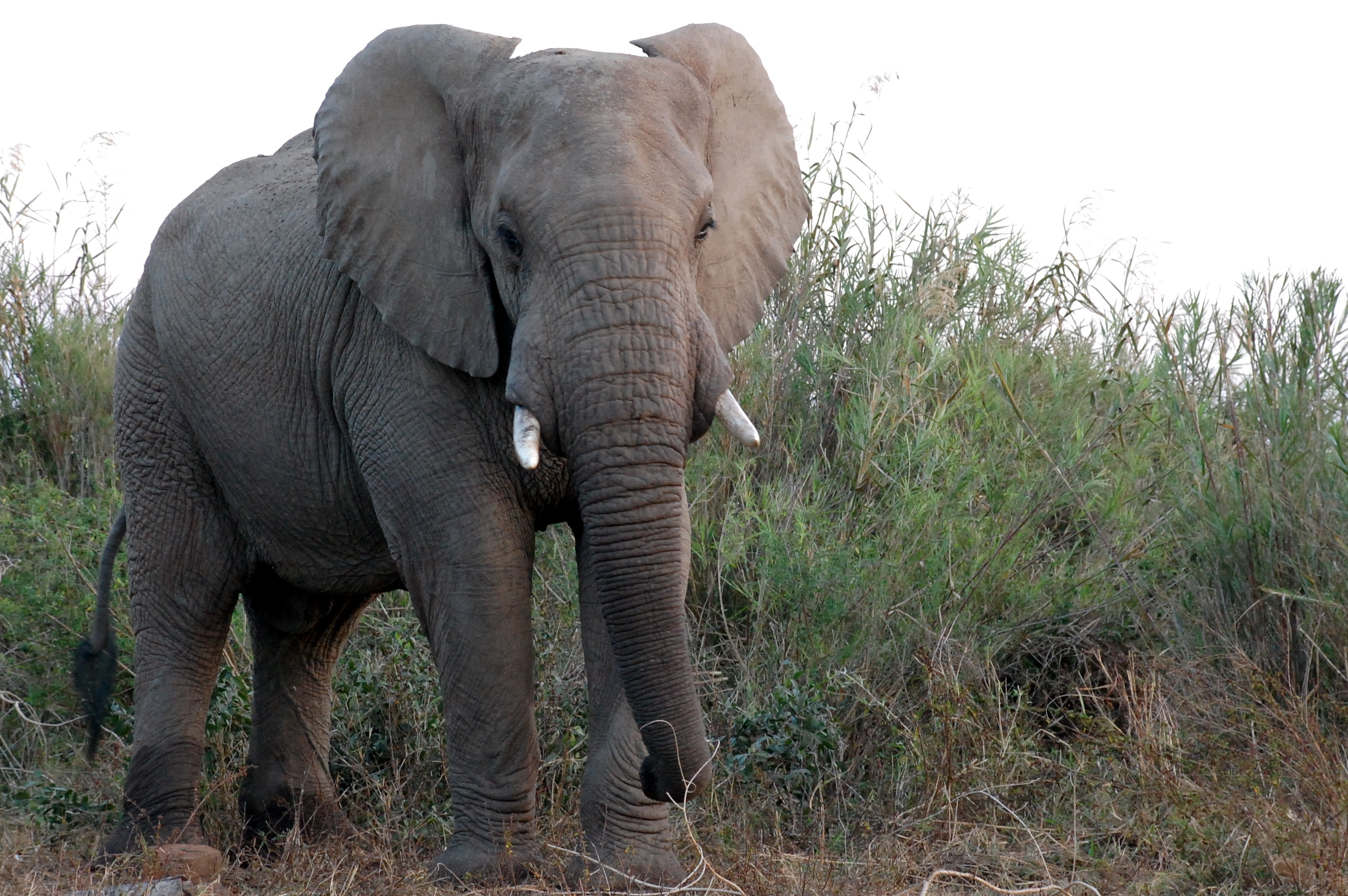 Young African elephant bull, Kruger National Park, South Africa. He was made nervous by our presence and was displaying mock aggression.